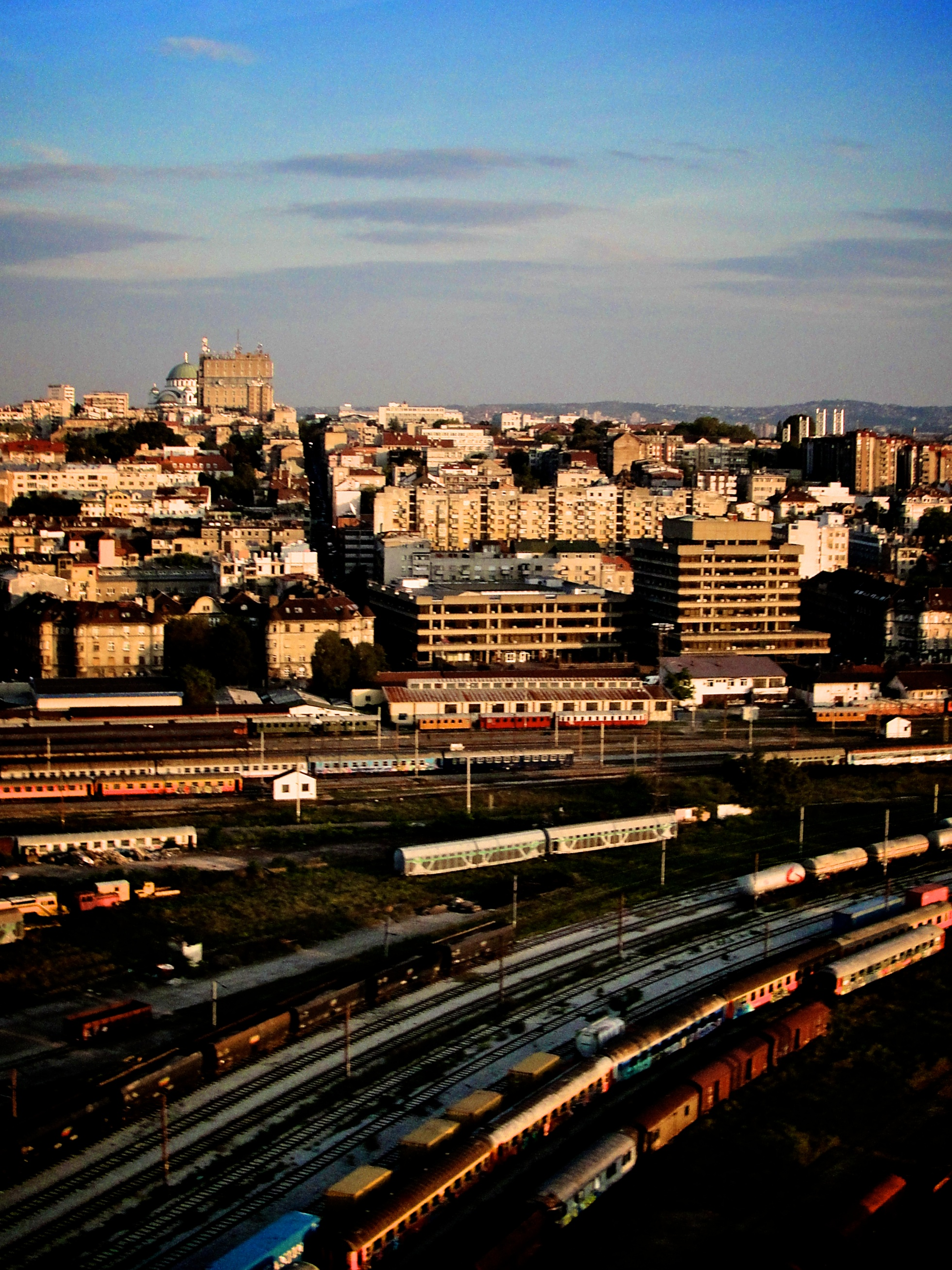 Looking Southeast at Old Belgrade. Image was captured by a camera suspended by a kite line. Kite Aerial Photography (KAP)